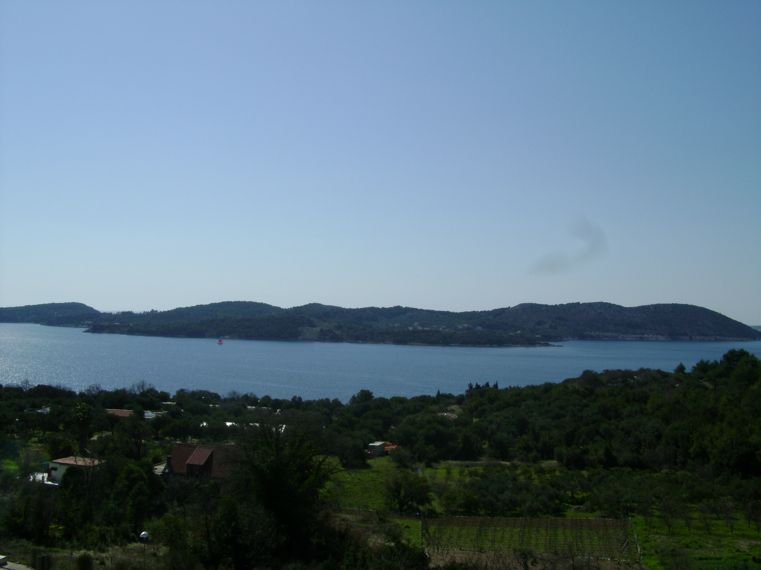 Picture of island of Koločep